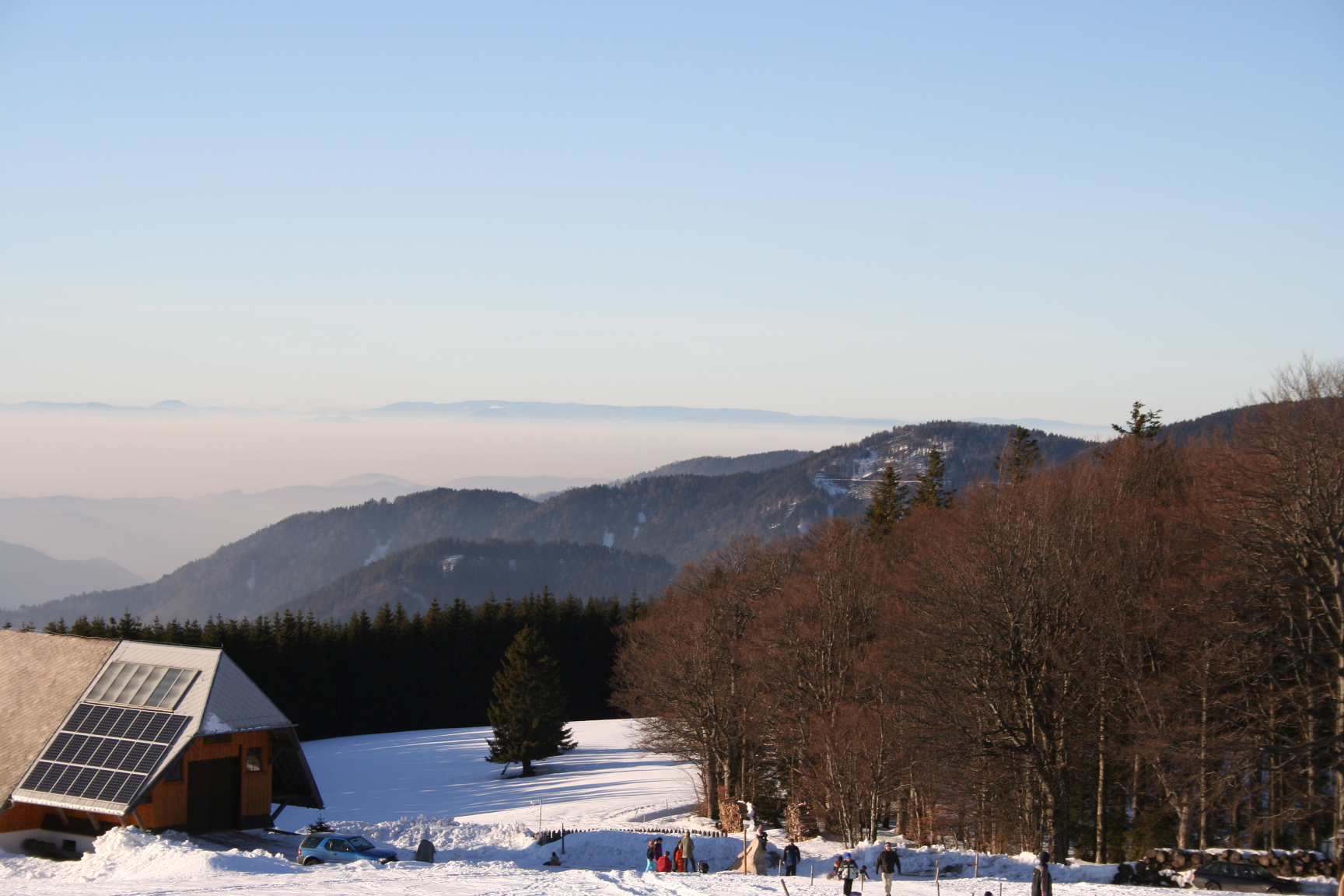 View from Mt. Brend near Furtwangen (Germany, Baden-Wuerttemberg) over valleys and skiing areas.